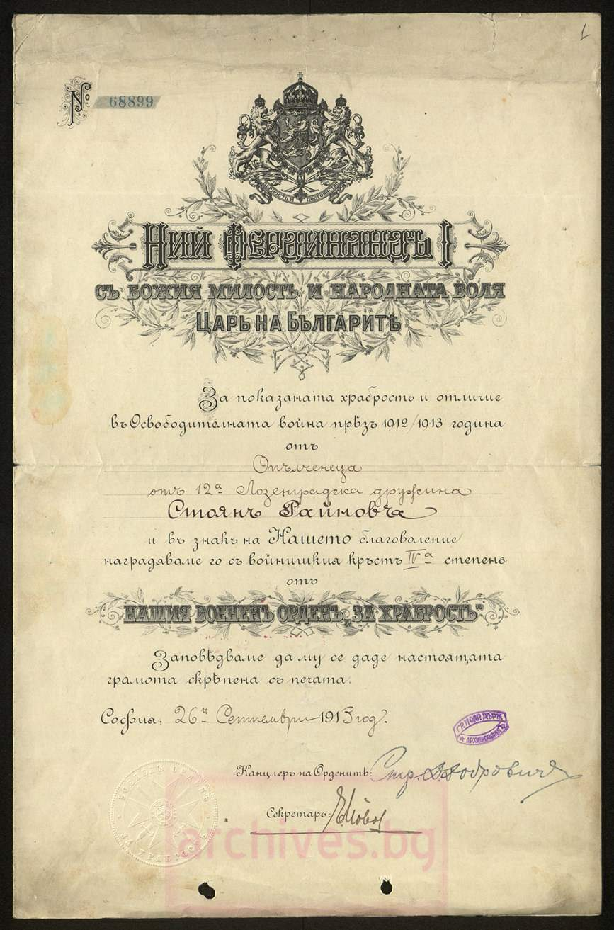 Stoyan Raynov's Order For Bravery Doploma